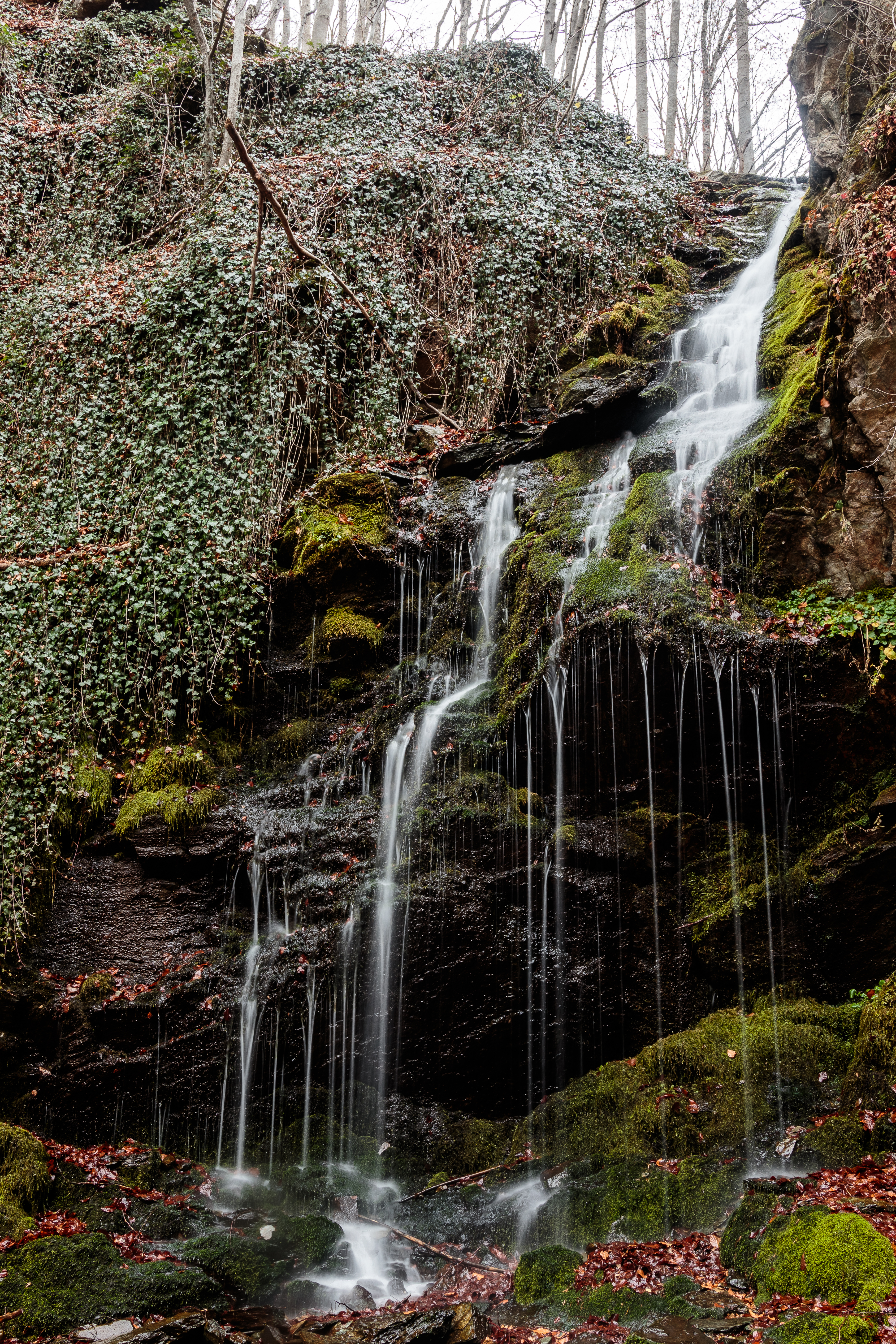 Spikovo Waterfall on River Bregalnica at Ravna Reka, Macedonia